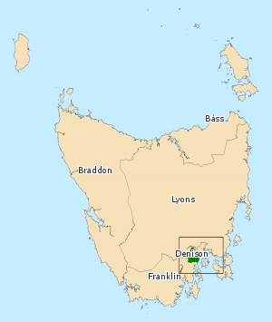 This image incorporates data that is: © Commonwealth of Australia (Australian Electoral Commission) 2009 Division of Denison 2010